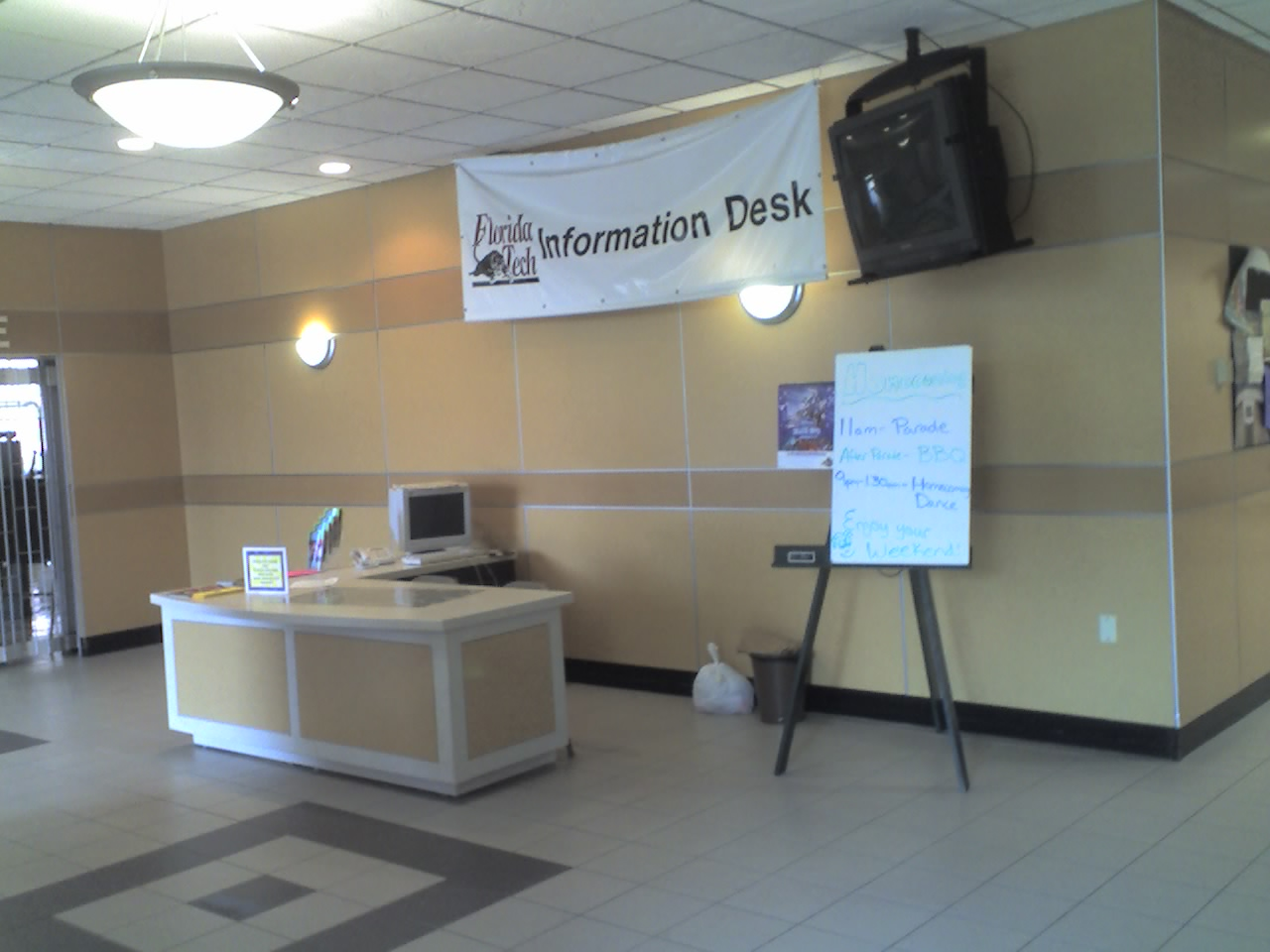 First floor of Florida Institute of Technology's Homer Denius Building. Viewing the Information Desk, operated by the Office of Student Life. To the left of this picture would be the SUB Cafe (not shown), direct right would be the campus bookstore (not shown), and down along the hallway would end up being the university mail annex (not shown). The TV shown is connected to Florida Tech's CCTV Channel 98, which displays campus-wide event listings as well as any student organization ads and/or graduation deadlines from the registrar's office. Picture taken on 21 October 2007 by User:Jamesontai on a 1.23MP Motorola V3i Camera (phone).